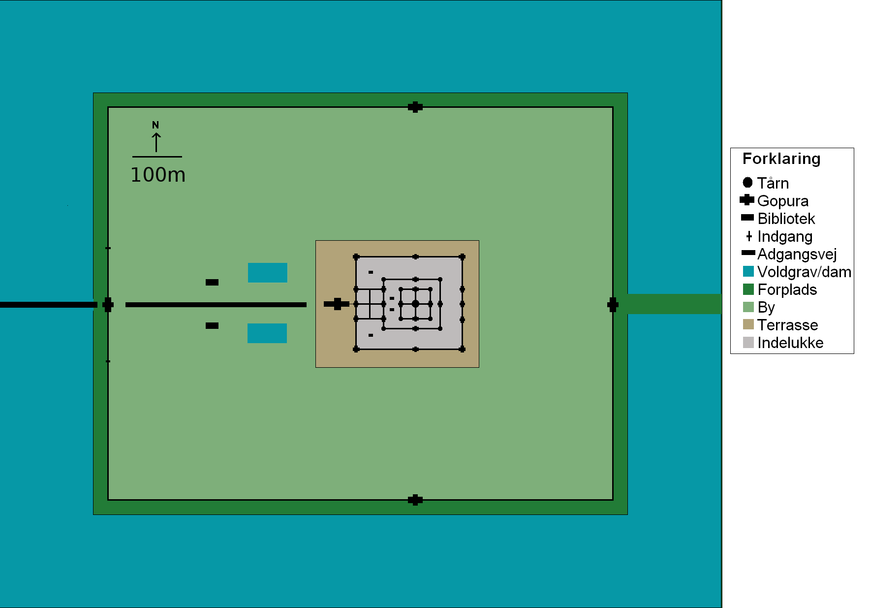 Plan of Angkor Wat. Text in danish. Original Image by User:Markalexander100. The walls, moat and causeways are to scale, as are the positions of the gateways, gopuras and towers. The positions of the libraries and the ponds are approximate.